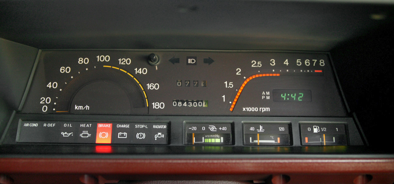 Mazda Cosmo, third generation ( HB ).